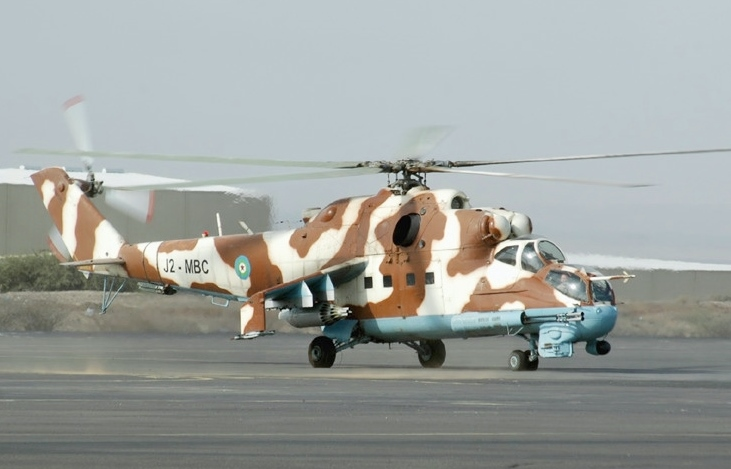 Force Aérienne du Djibouti Mi-35P Hind